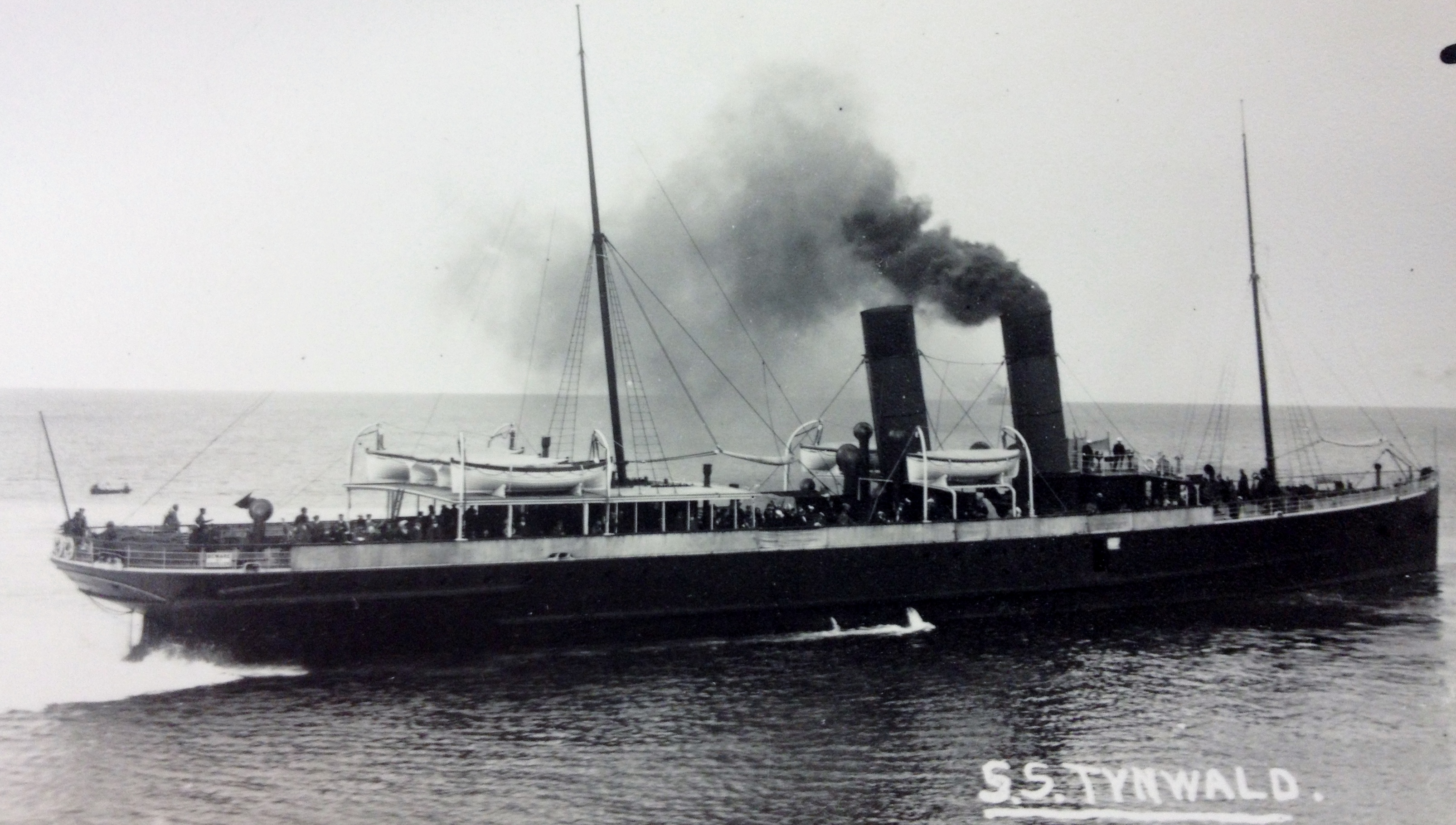 SS Tynwald leaving Douglas, Isle of Man.